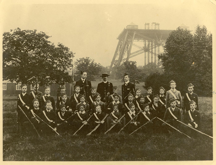 Wembley Boys’ Brigade in front of Watkin’s Tower